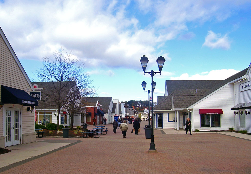 Photographed by Daniel Case 2006-10-25